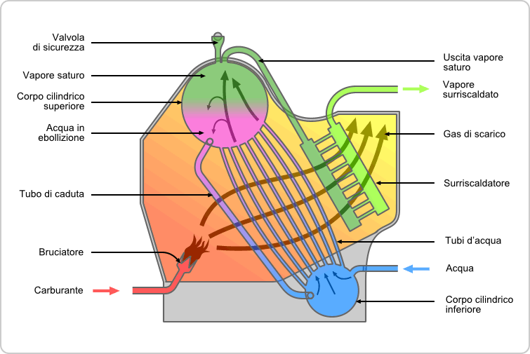 Italian version of File:Water tube boiler schematic.png